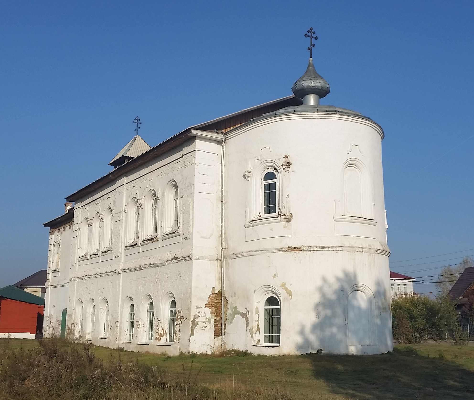 Church of the Holy Trinity in Yemelyanovo, Krasnoyarsk Krai